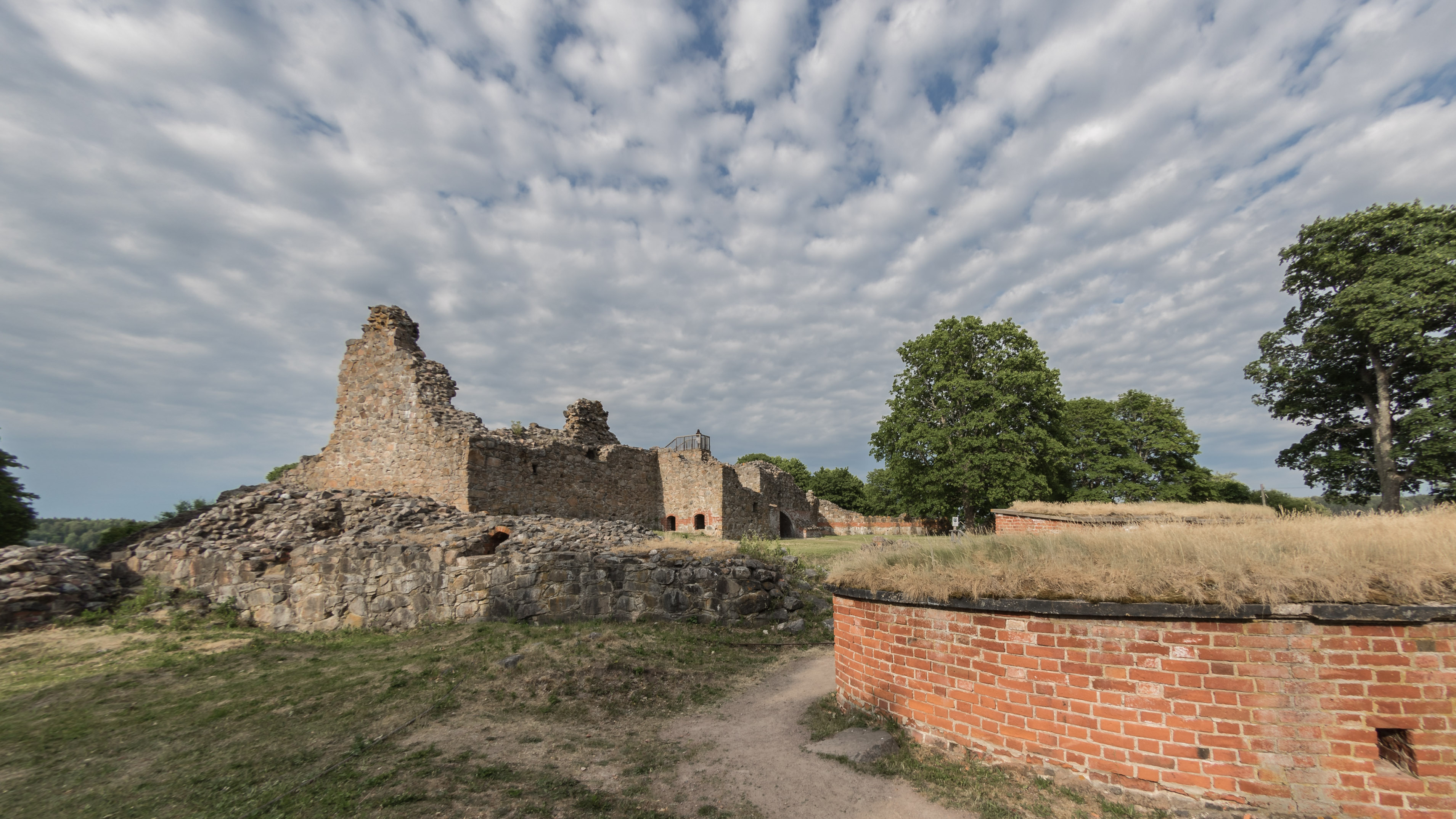 Kuusisto castle overview